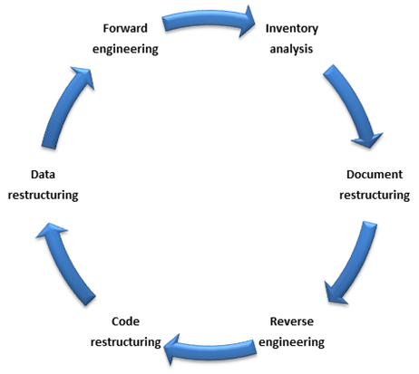 A software reengineering process modelShqip: Modeli i Procesit të rindërtimit të softuerit